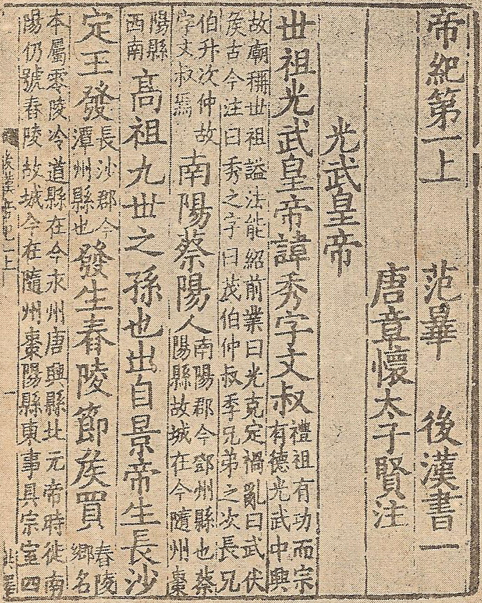 Hou Han Shu